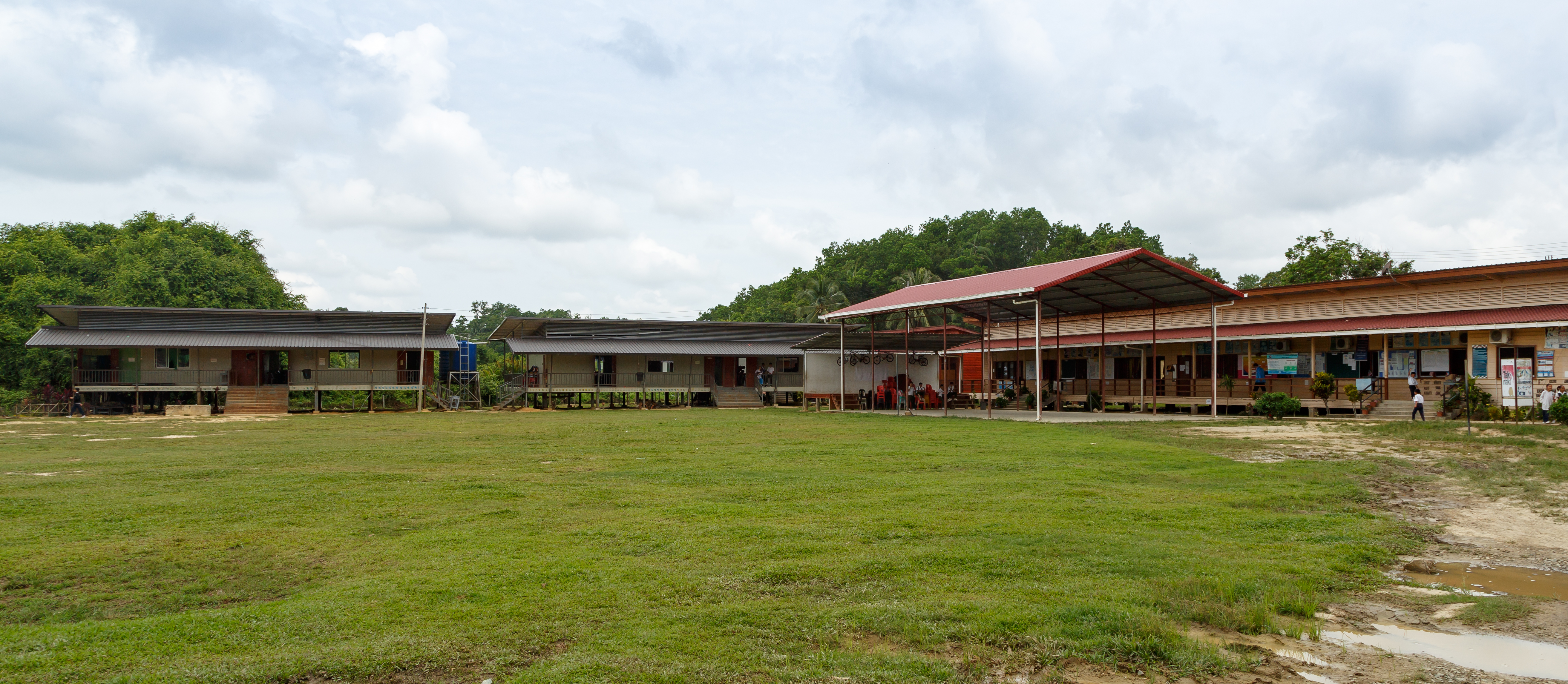 Kanibongan, Sabah: SK Kanibongan, a primary school in Pitas District